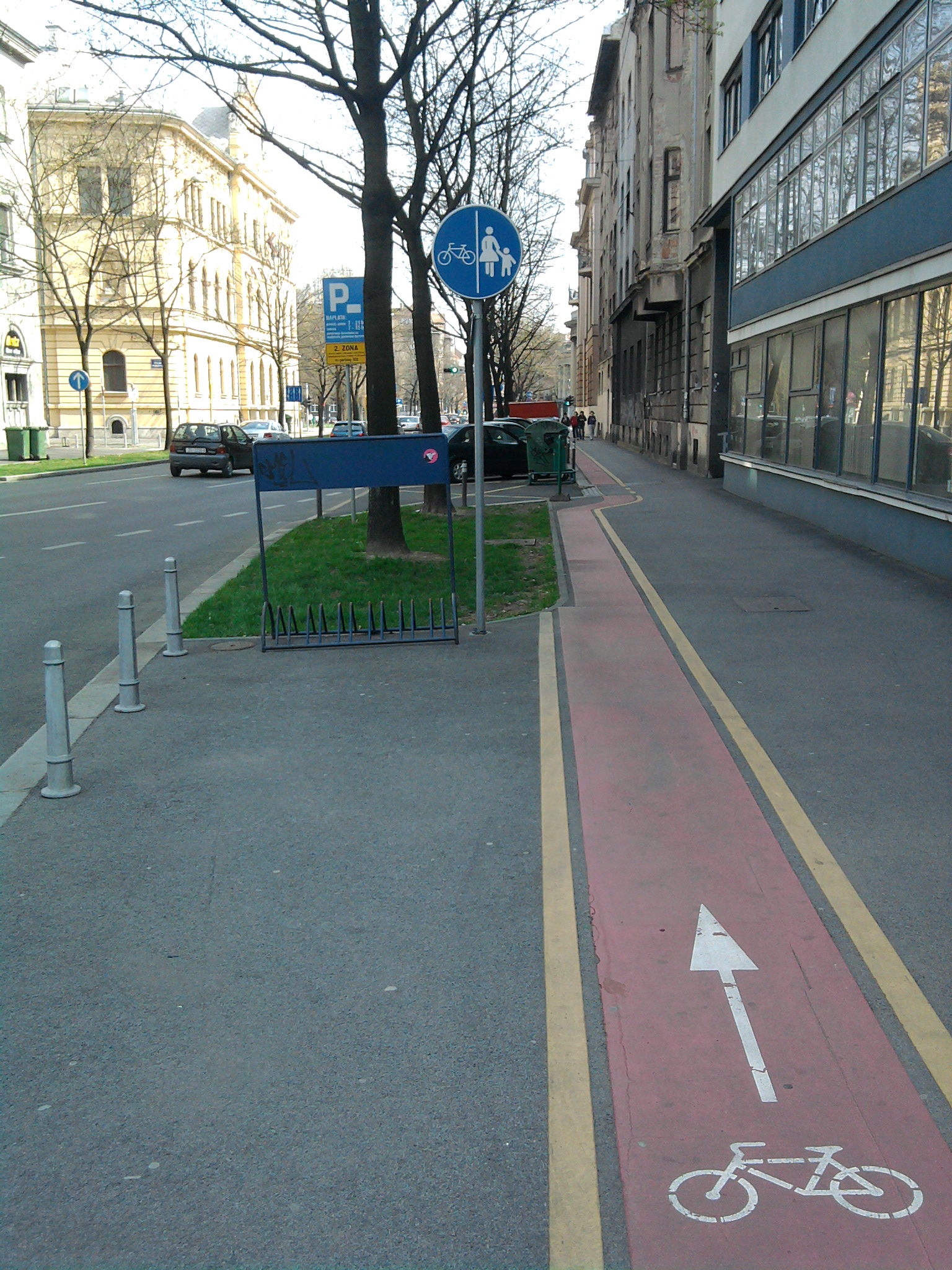 Bikeway in Zagreb, Vukotinovićeva street.